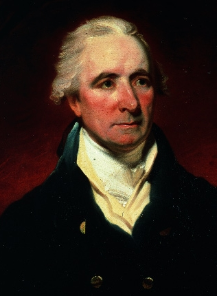 Cropped version of this portrait.